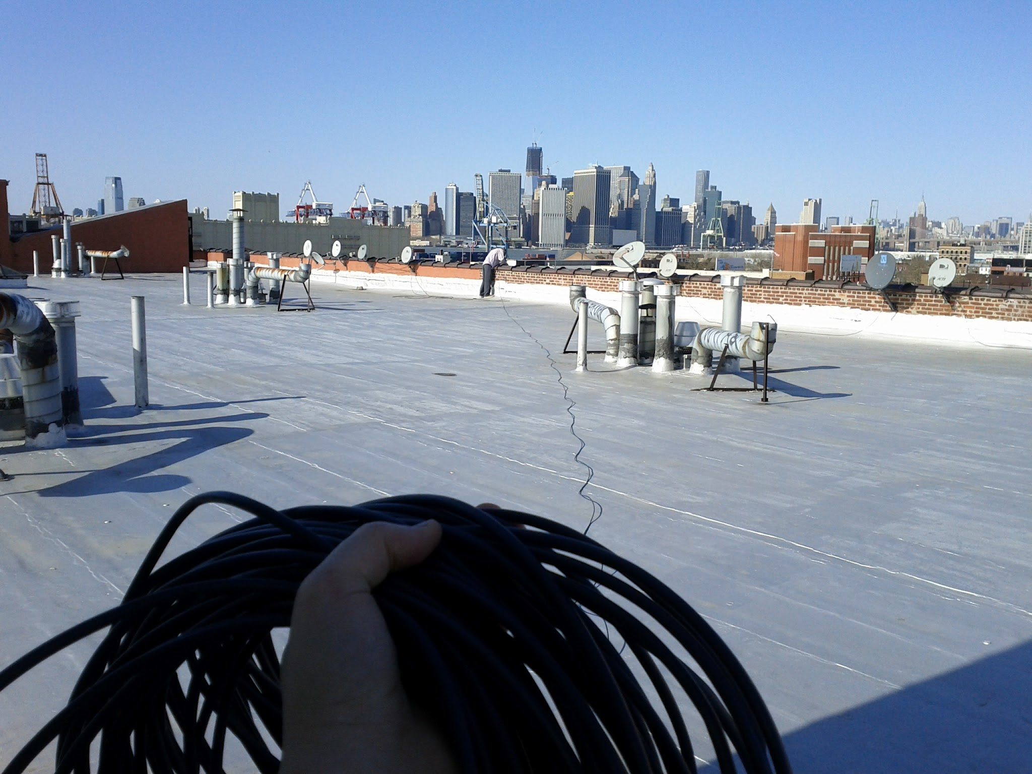 Running (PoE) ethernet cable to install a mesh network node on the roof of apartment building north of Coffey Park. PoE stands for Power over Ethernet, where the directional node (Ubiquiti Nanostation) can be powered by a single cable that carries network traffic as well as electrical power.